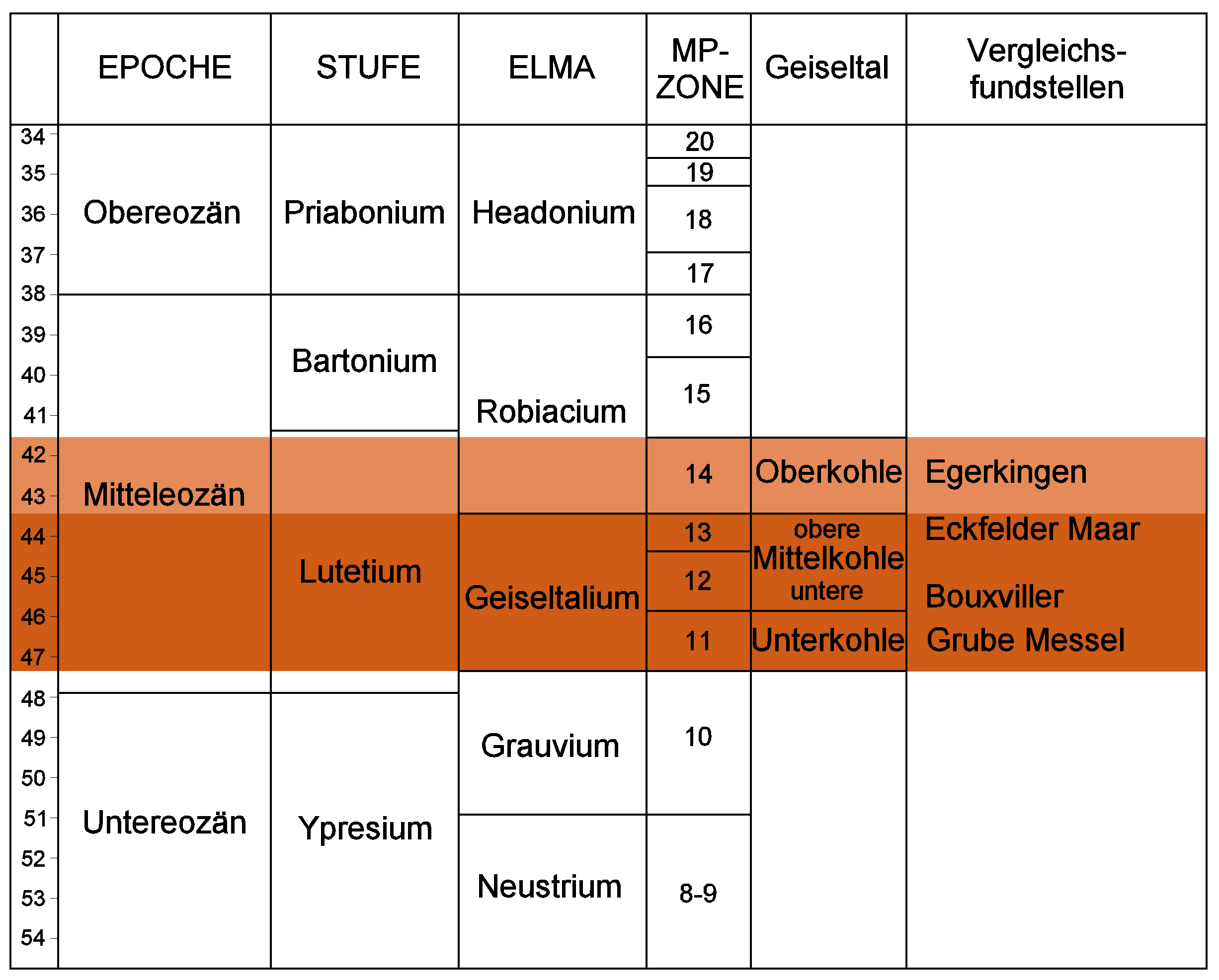 Stratigraphical position of the Geiseltal deposits within the Eocene epoch.